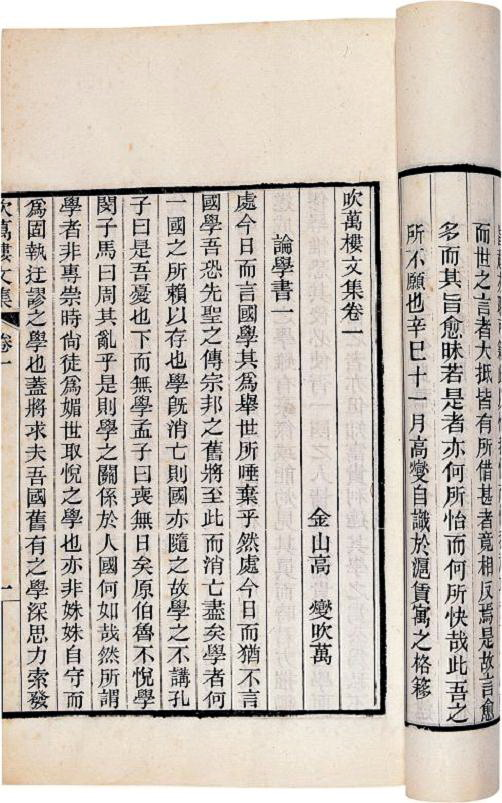 Book published by Gao Xie (title: Literal Collection of Chuiwan, 1941)